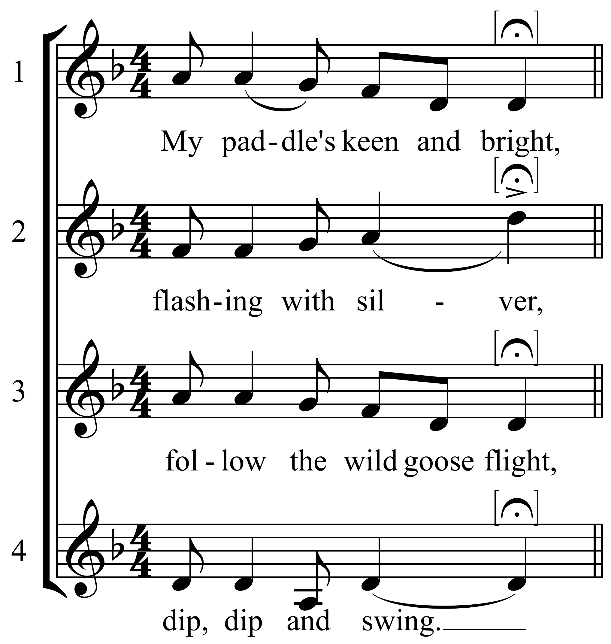 "My Paddle's Keen and Bright", a four voice round, by Margaret Embers McGee (1918).